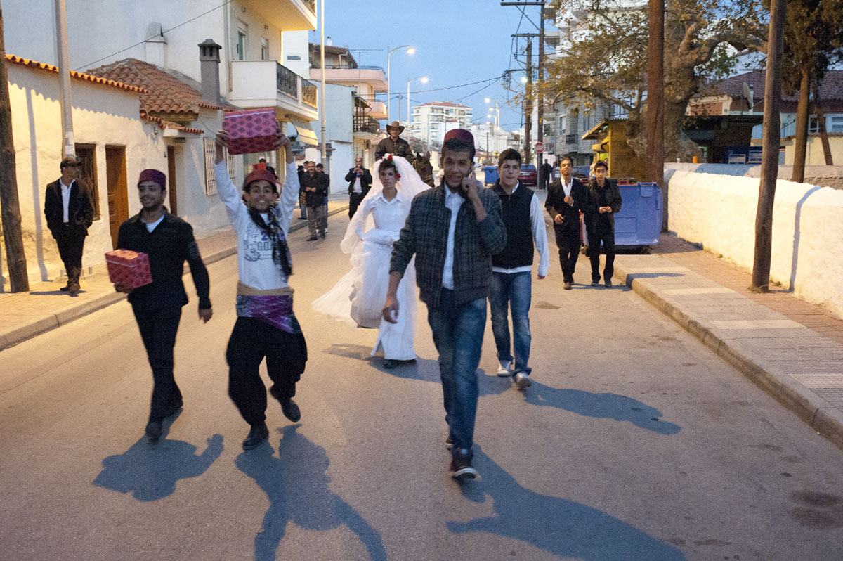 "Deve" (camel) tradition within the "Eid al-Adha"/"Festival of Sacrifice", Komotini, Thrace, Greece.